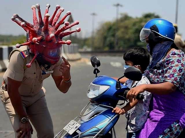 A local artist in collaboration with a police official in Chennai has made a unique 'Corona' helmet to dissuade commuters from coming out.